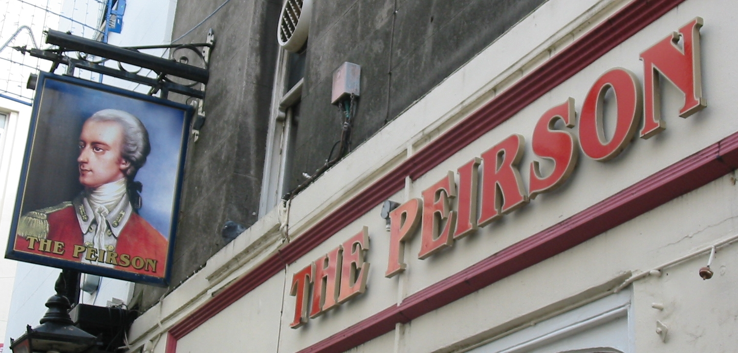 Peirson pub, Saint Helier, former house of Doctor Lerrier in which Baron de Rullecourt died after Battle of Jersey